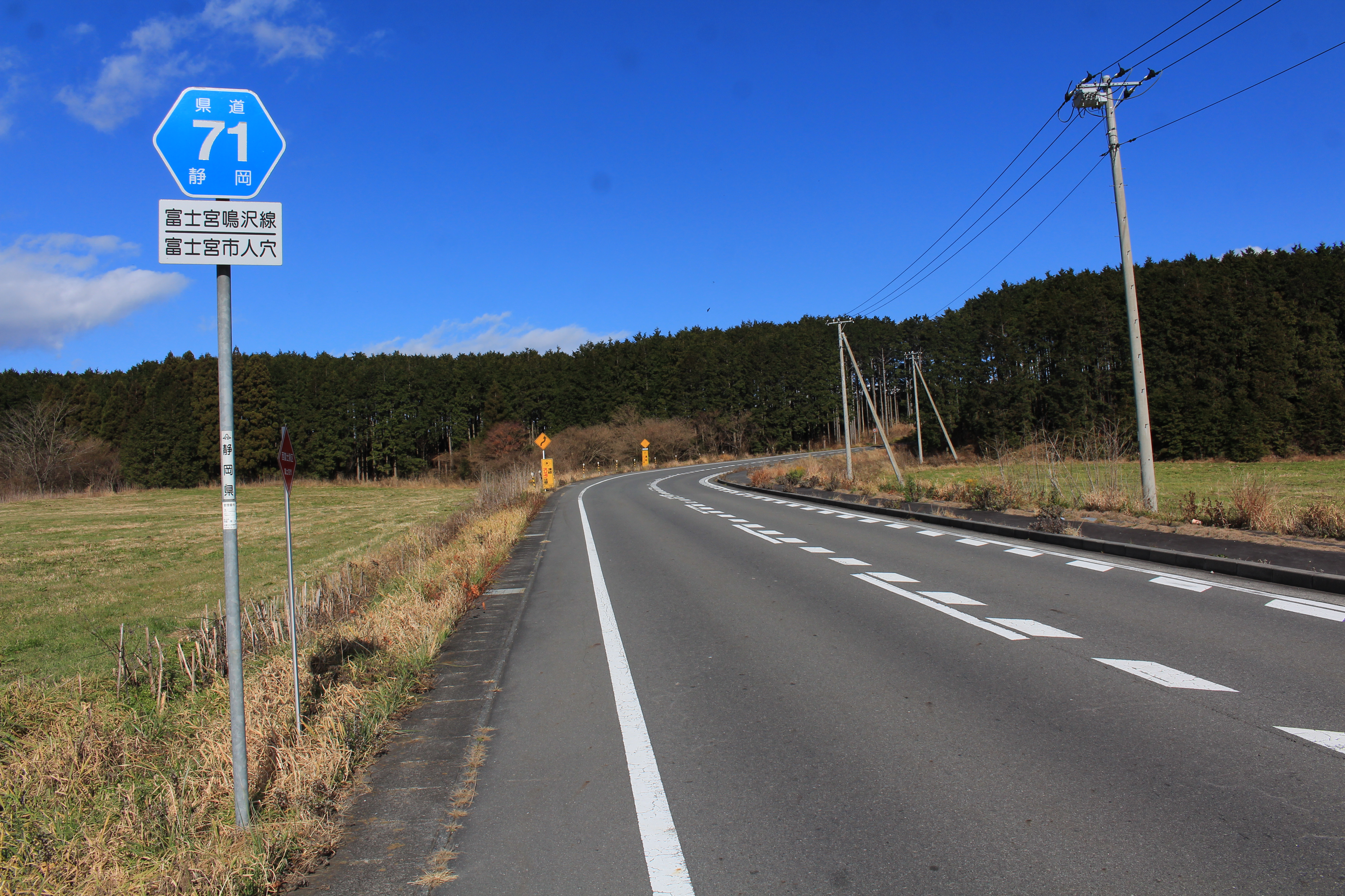 Shizuoka Prefectural Road and Yamanashi Prefectural Road Route 71, in Hitoana, Fujinomiya, Shizuoka prefecture, Japan.